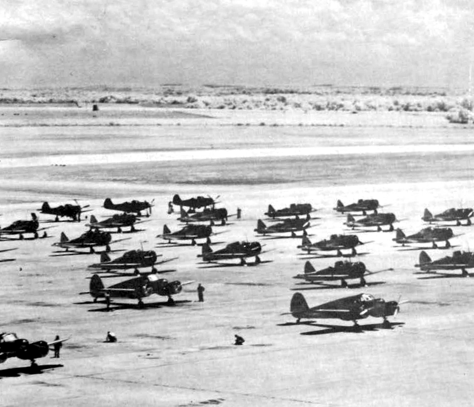 Brooks Field - Cessna AT-17 Bobcats on parking apron